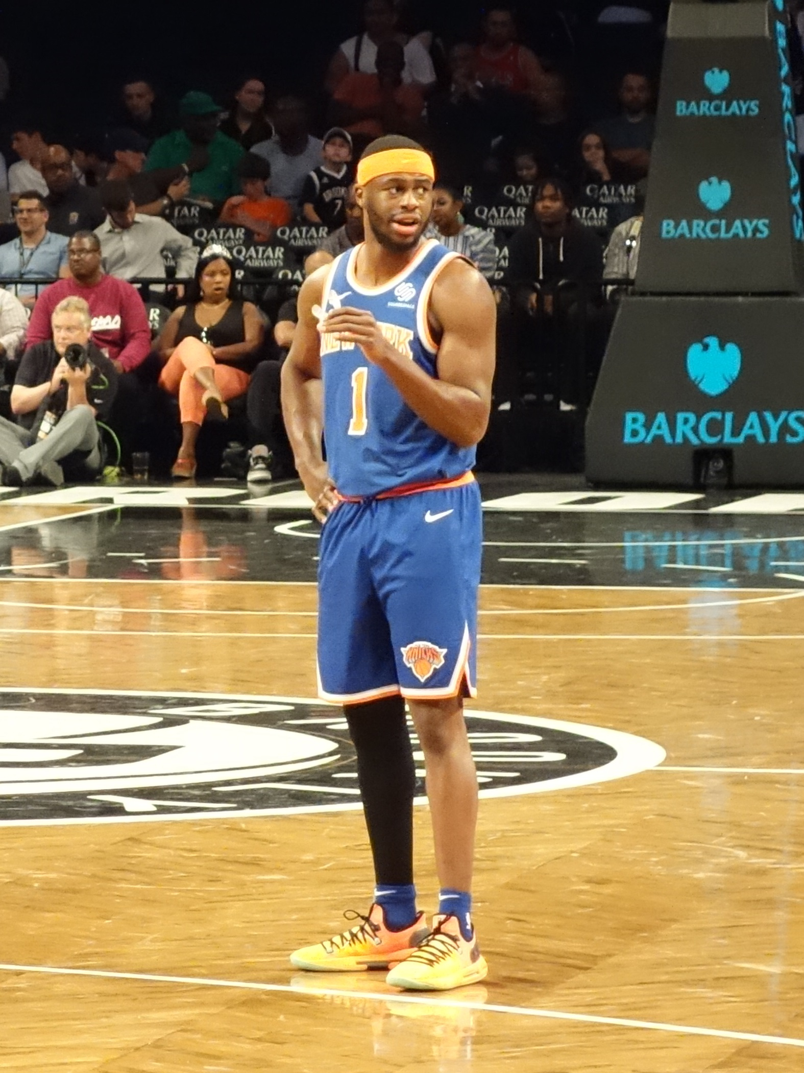 New York Knicks guard Emmanuel Mudiay during the first quarter of the NBA Preseason game between the Brooklyn Nets and the New York Knicks at the Barclays Center on October 3, 2018. He looks like he's being cool and smoking a cigar, but he's actually holding his mouthguard.